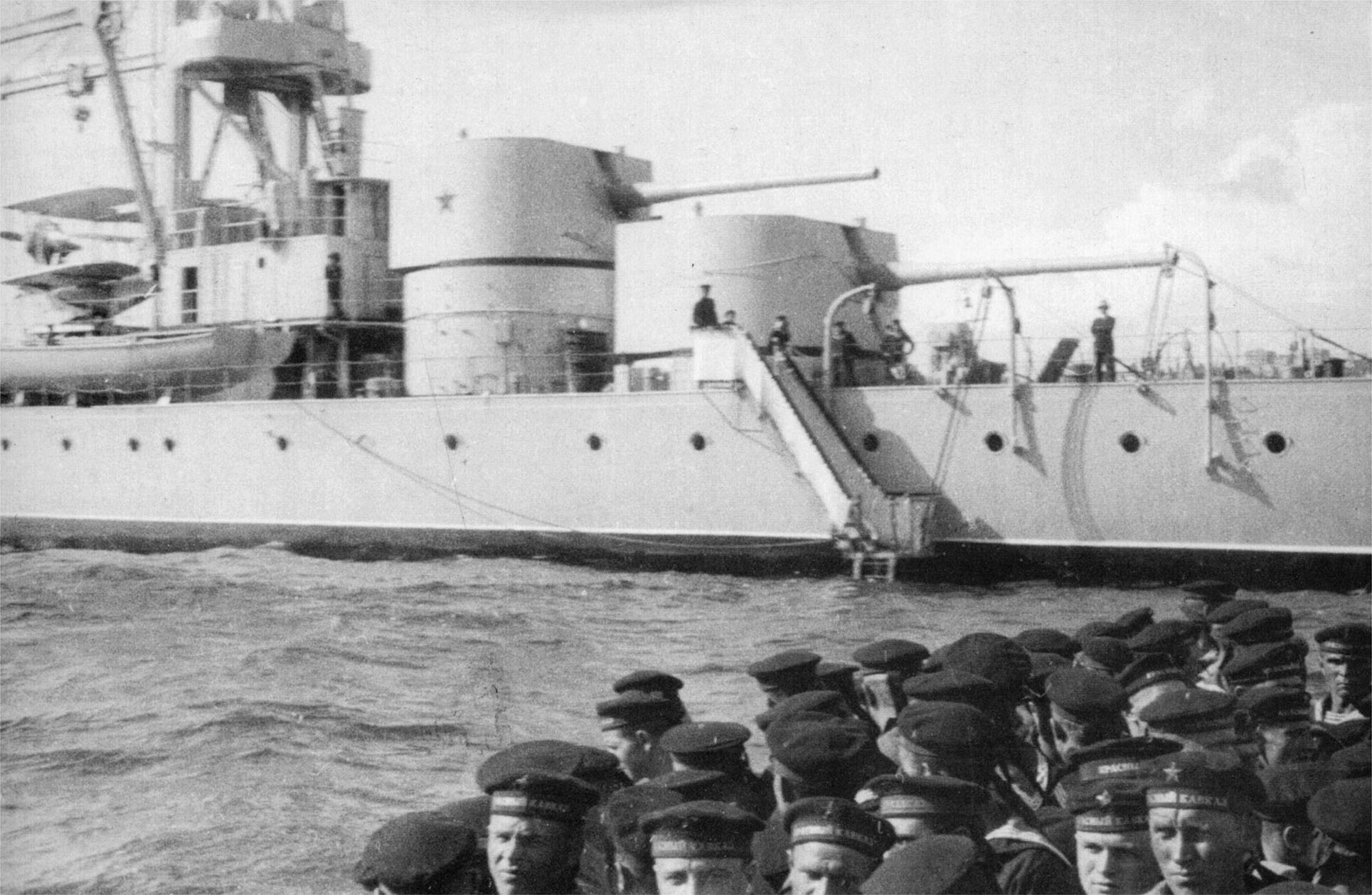 The Soviet cruiser Krasnyi Kavkaz, 1930s.